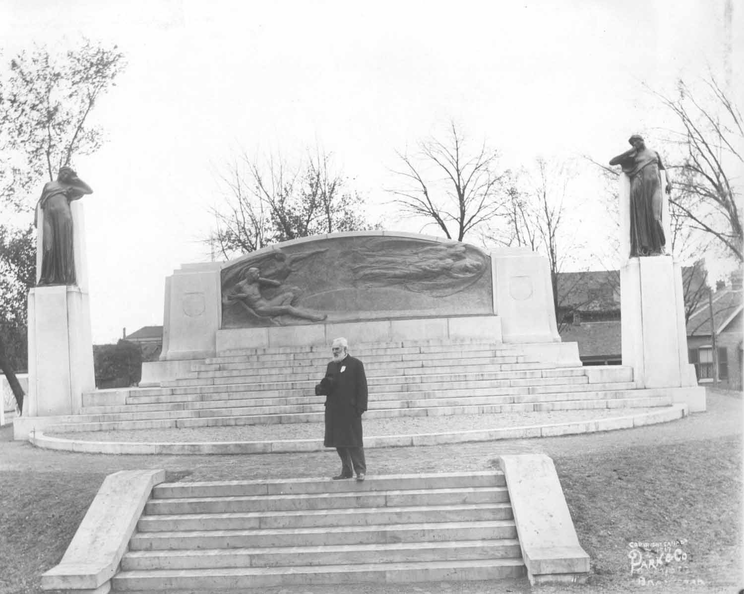 Alexander Graham Bell standing in front of the Bell Telephone Memorial, erected to commemorate the invention of the telephone by Alexander Graham Bell in Brantford, Ontario, Canada in the summer of 1874.